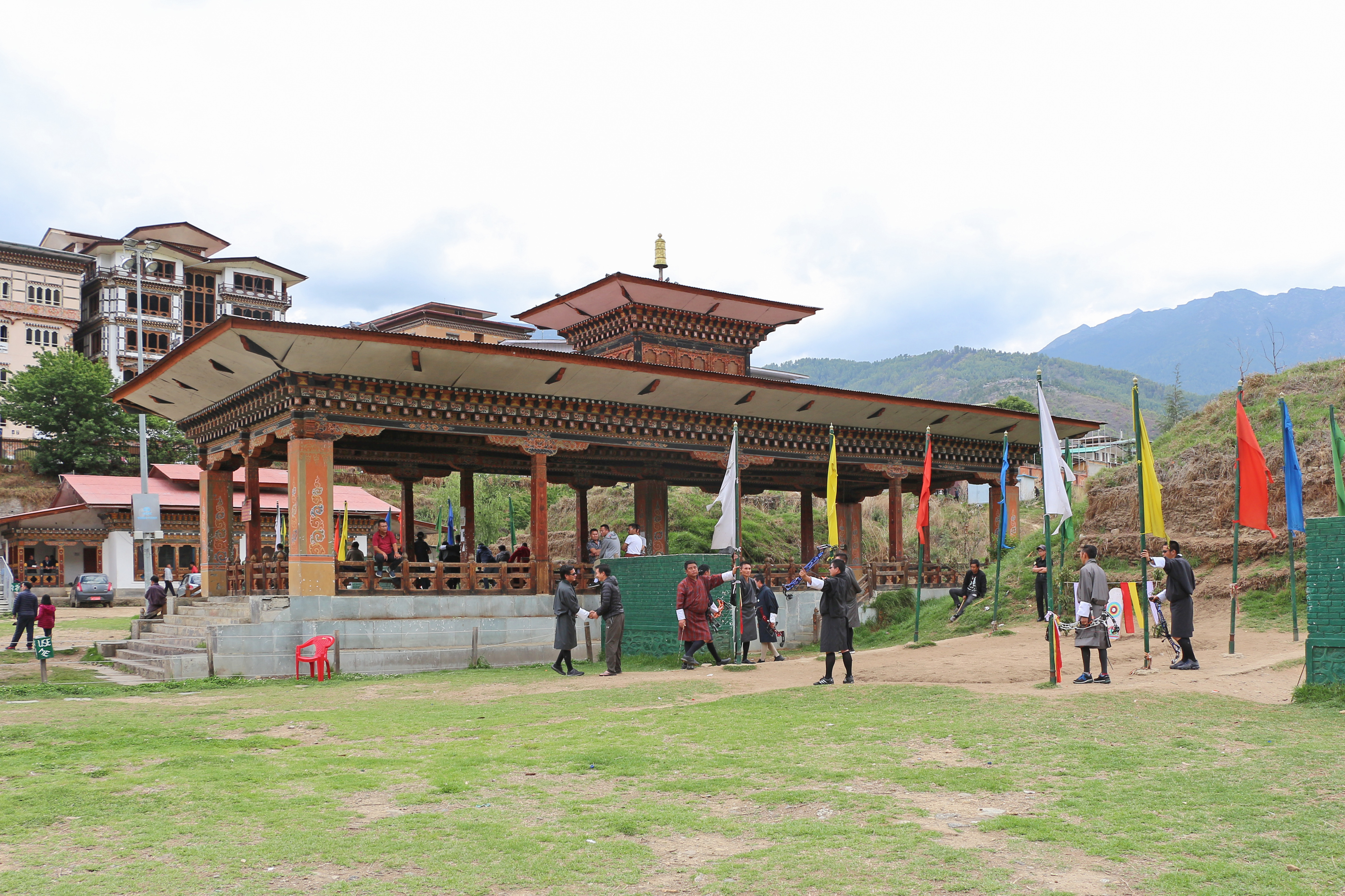 Changlimithang Archery Ground, Thimphu, Bhutan